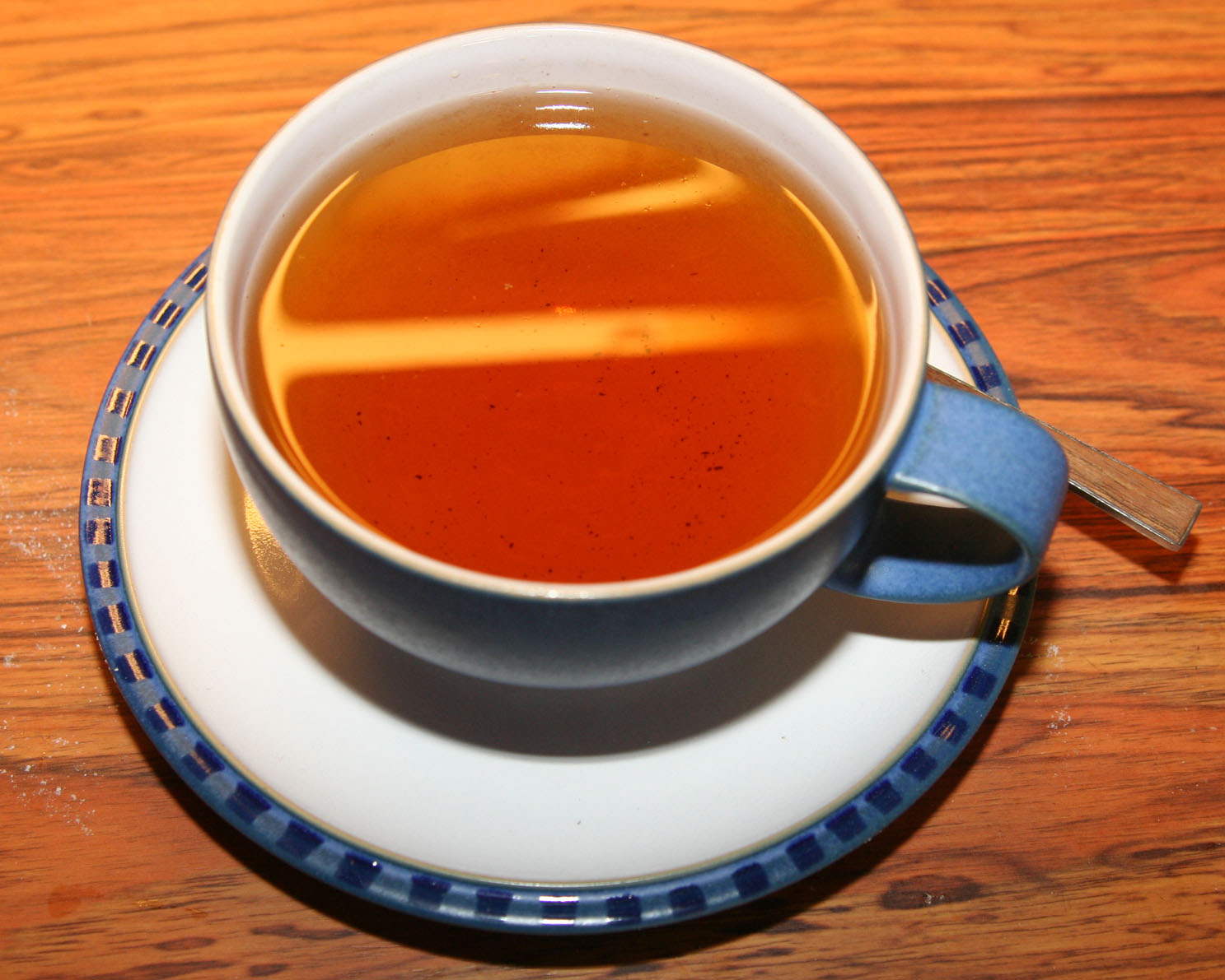 Teacup with tea